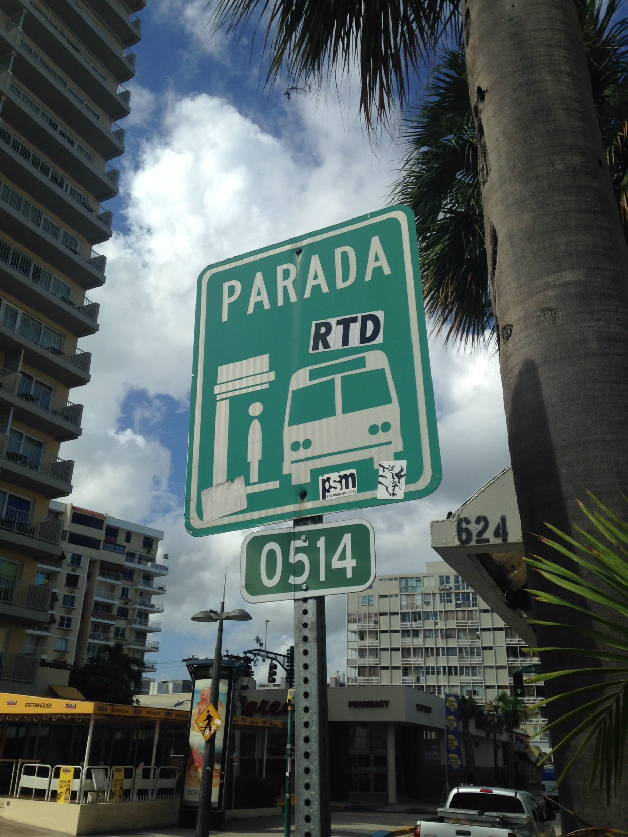 A typical bus stop in San Juan, Puerto Rico. This particular one is on Avenida Ashford across from the Best Western Plus in Condado.